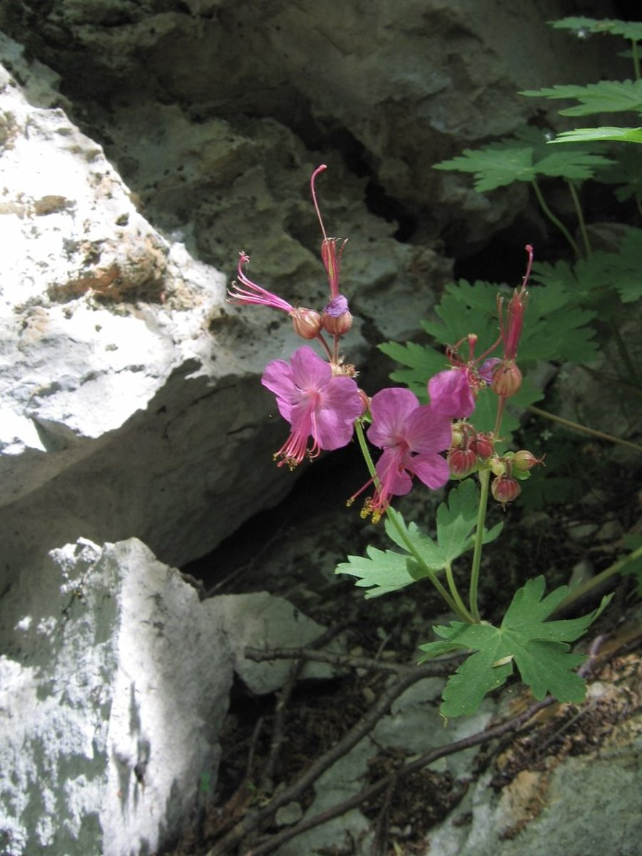 Korenikasta krvomočnica na južnem pobočju Gore nad Ajdovščino.